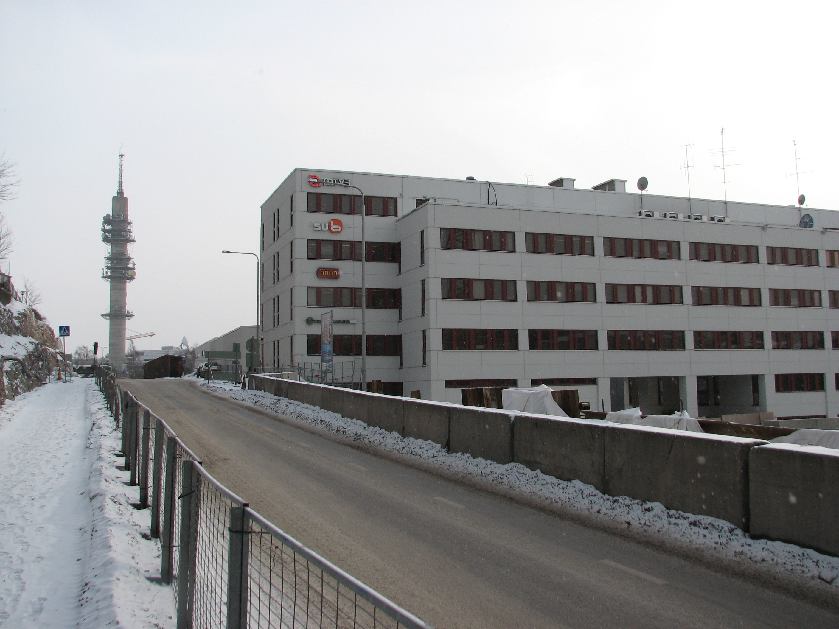 The MTV3 broadcasting studio in Helsinki, Finland.